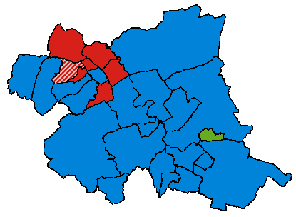 Charnwood Borough Council Election Map 2019